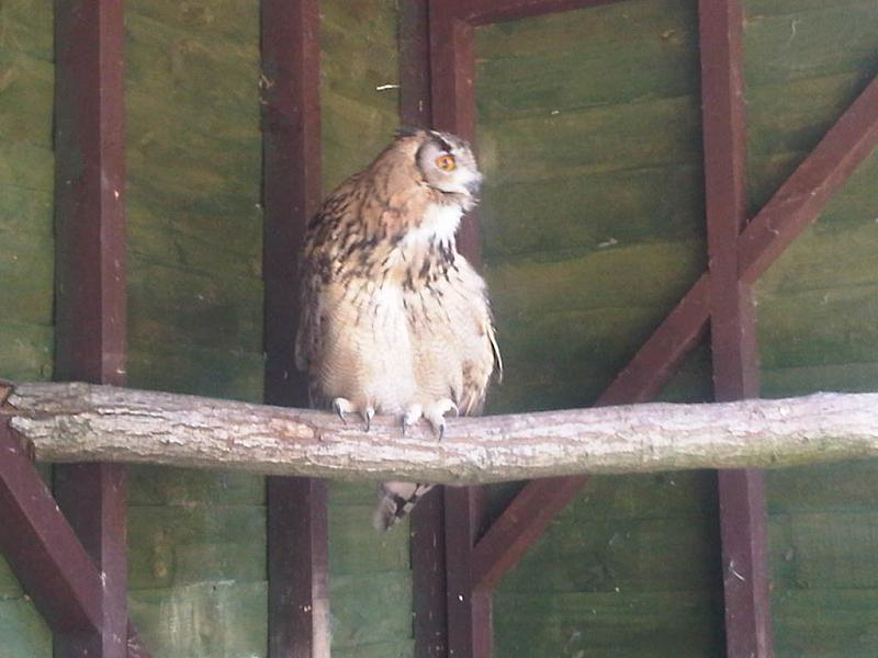 Eurasian Eagle-owl (Bubo bubo) at Owl and Monkey Haven in Isle of Wight, England.